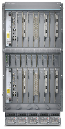 Juniper Networks PTX3000 packet transport router